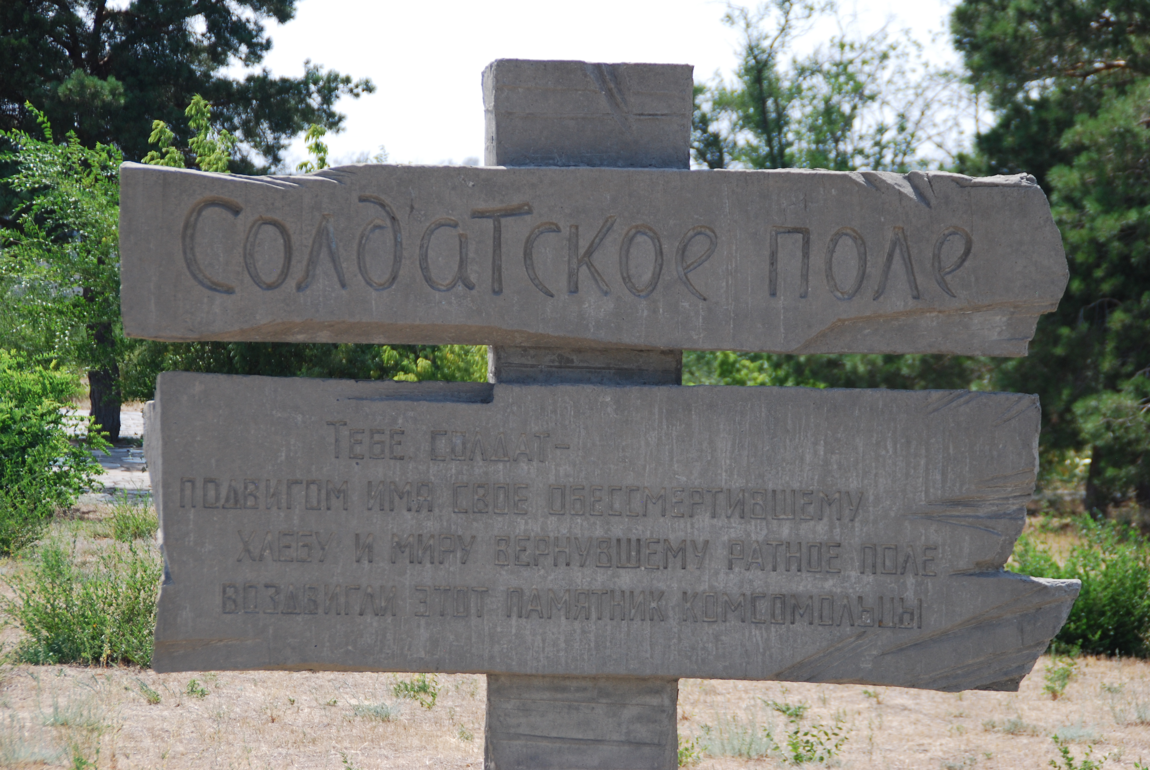 You are free to use this image providing you include a credit to